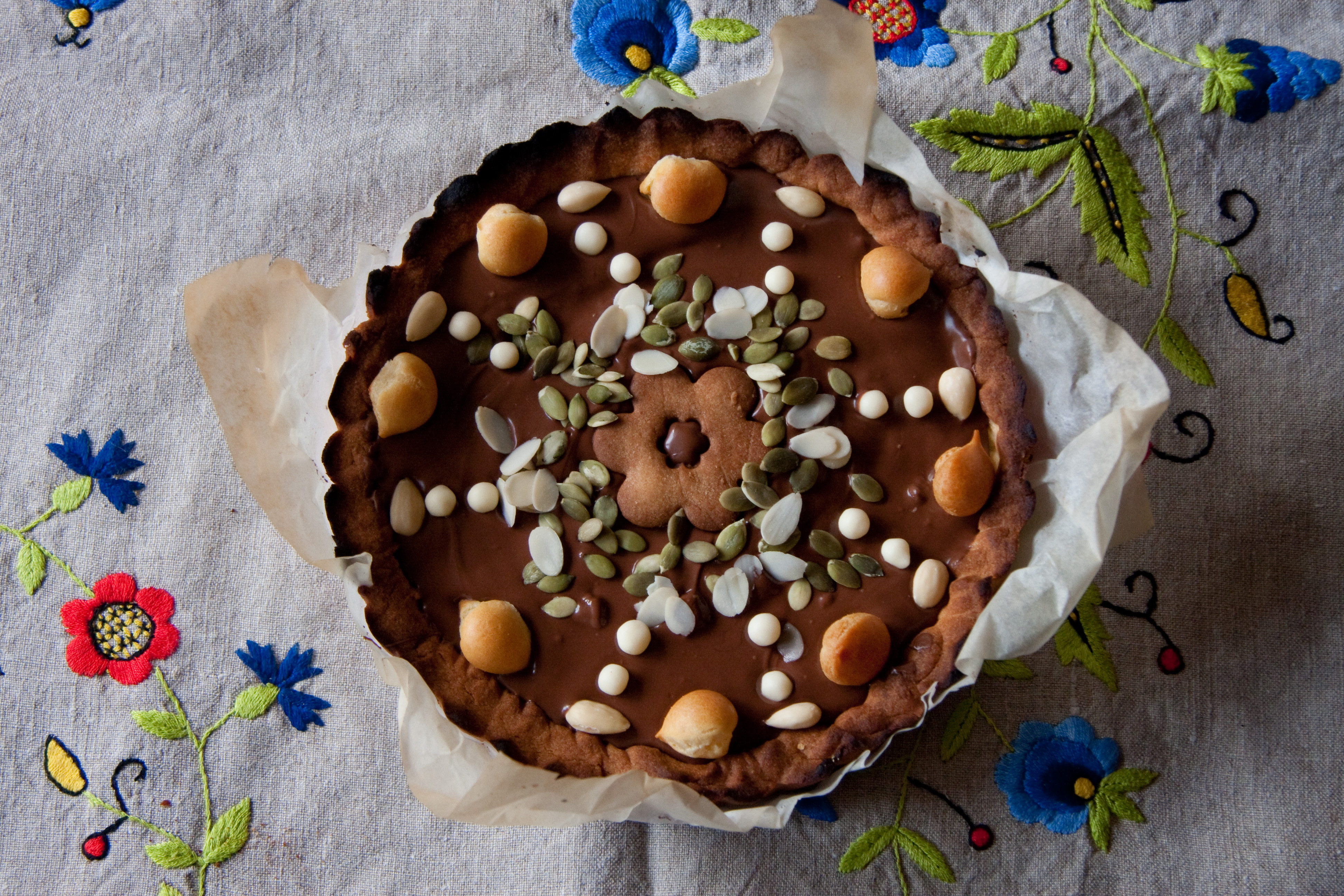 Mazurek cake. Decorated with mini choux, green pumpkin seeds, almonds, milk dragees, and a cookie.